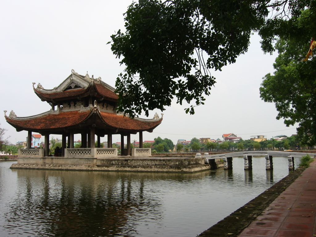 Pavilion for water pupets and quan họ seeing.